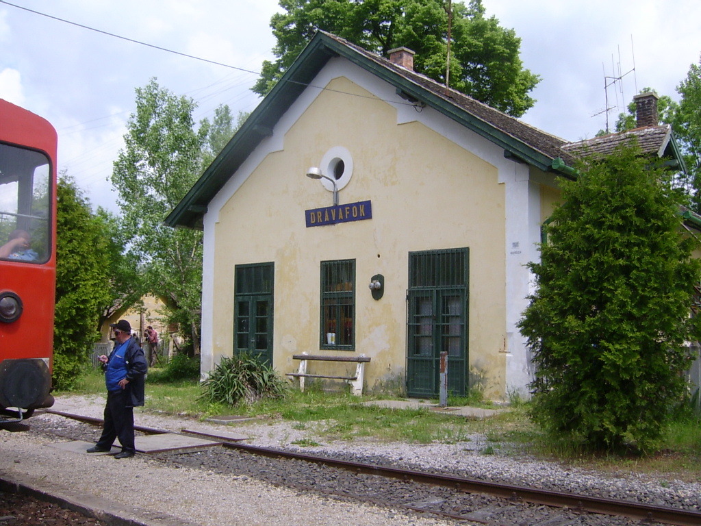 Railway station of Drávafok int the Sellye–Középrigóc line, Baranya county, Hungary